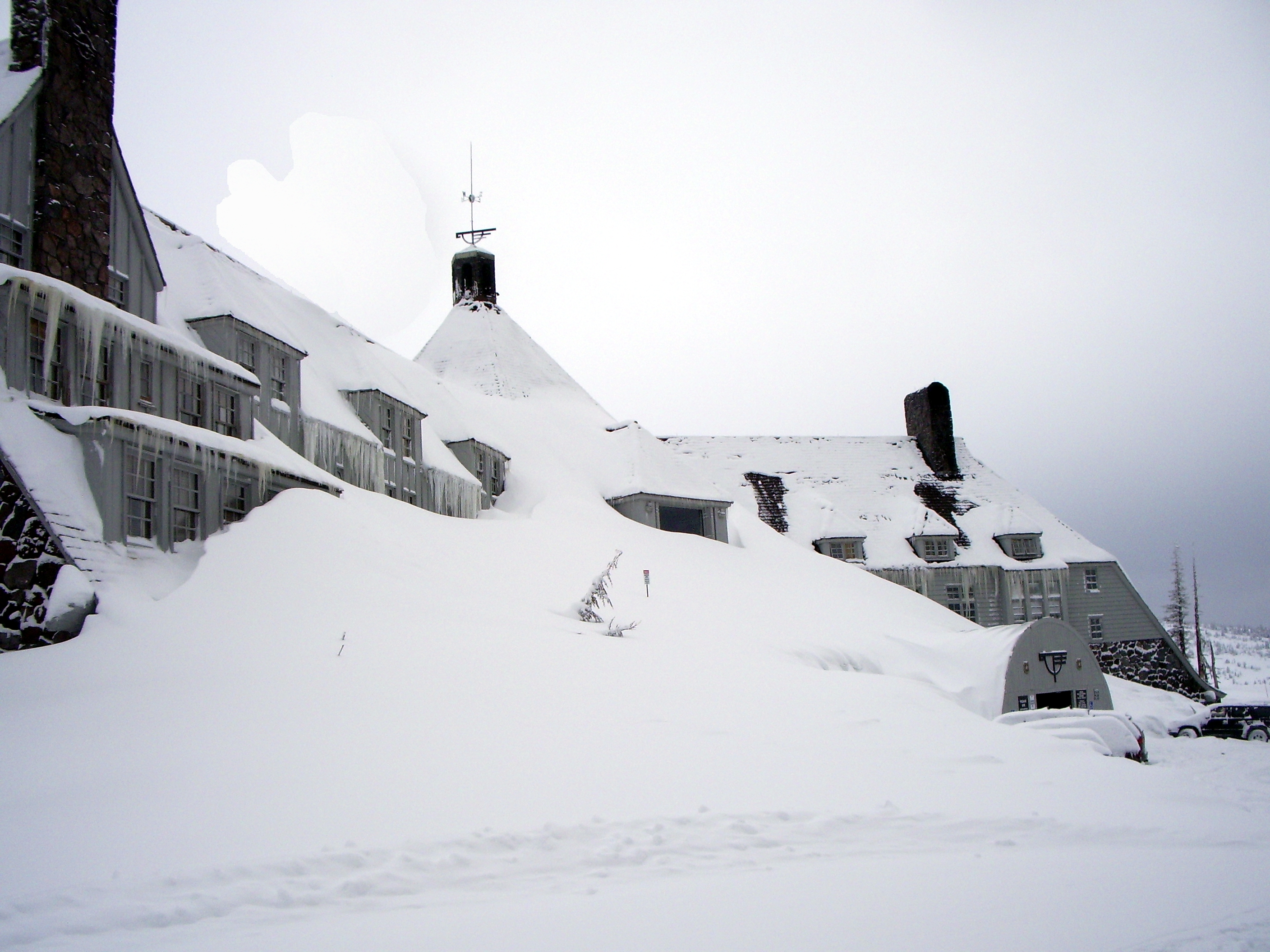 Front of Timberline Lodge National Historic Landmark in winter. Main entrance is through tunnel due to average seasonal snow depth of 21 feet (640 cm).